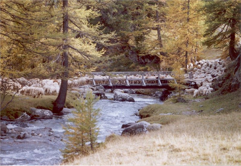 High valley of the Clarée river, Hautes-Alpes, France